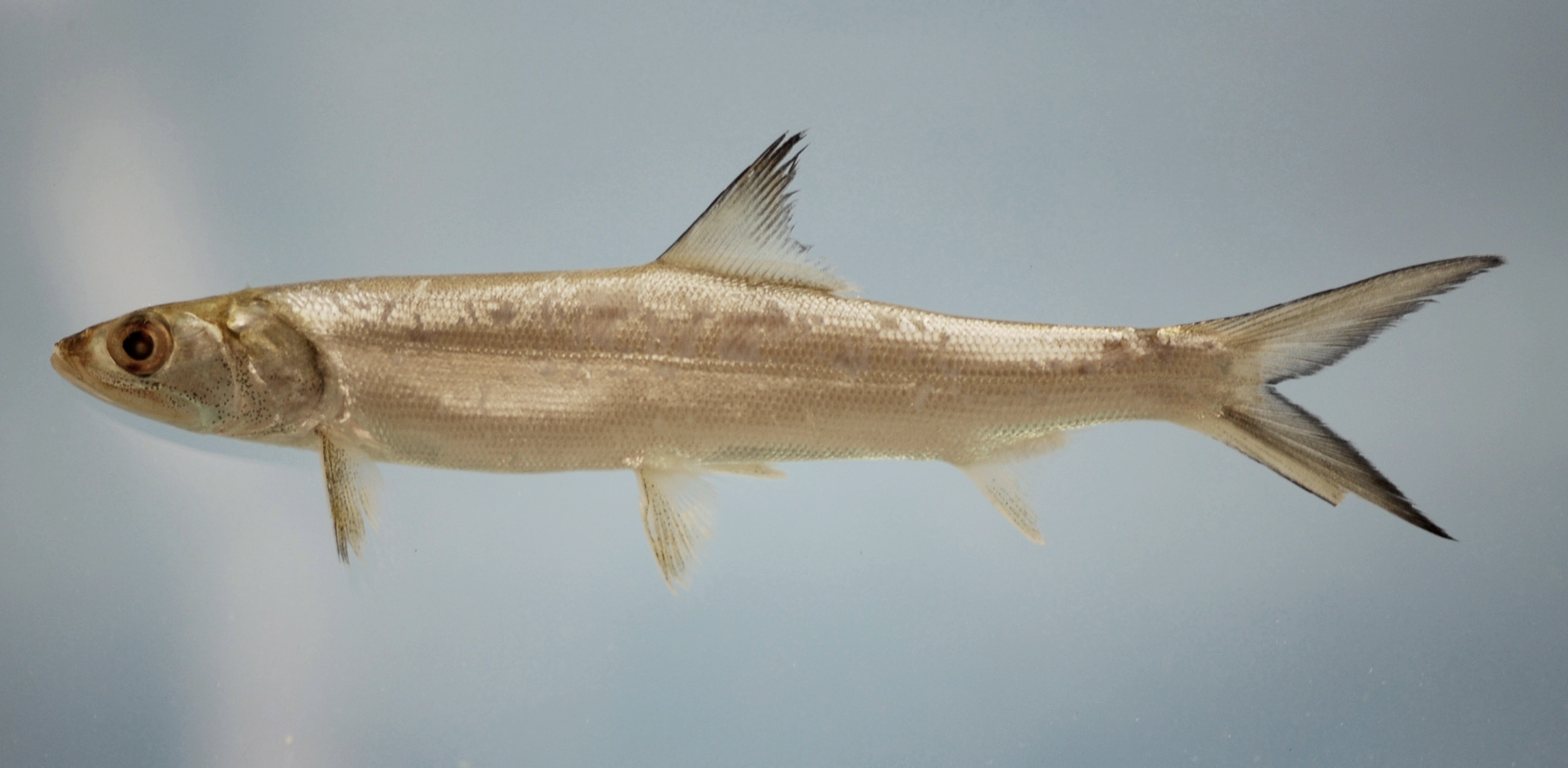 Elops saurus from the Gulf of Mexico